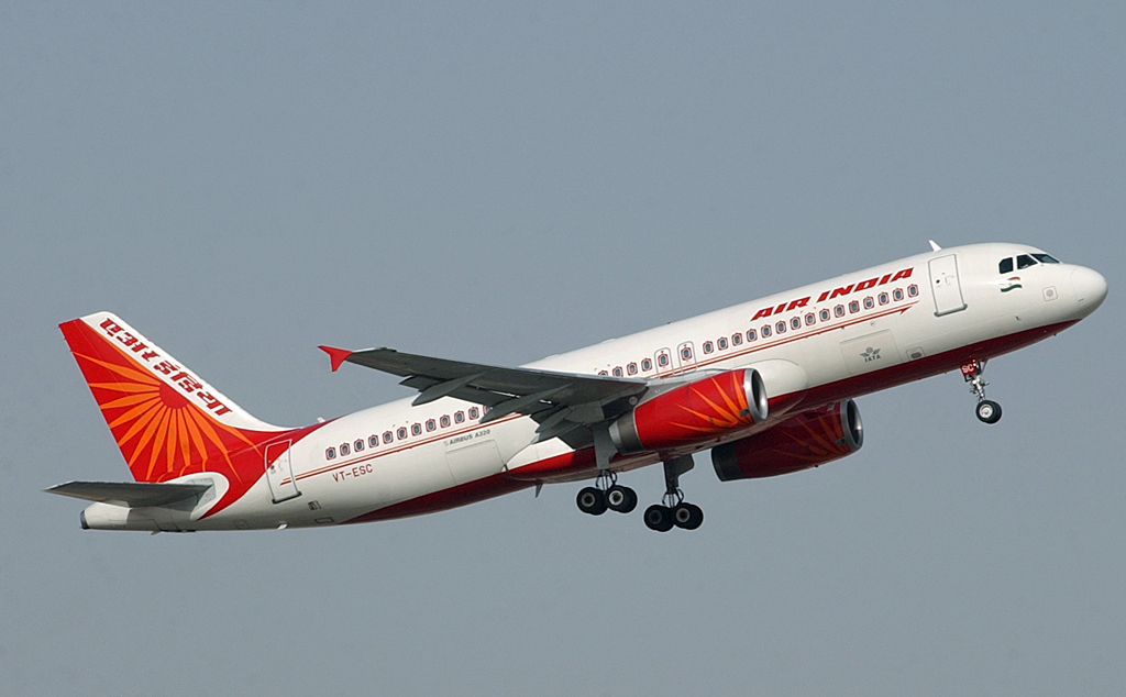 VT-ESC A320-232 of Air India taking off from Dubai on December 7, 2010.